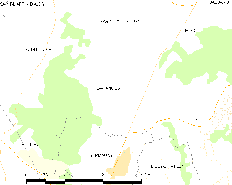 Map of French municipality